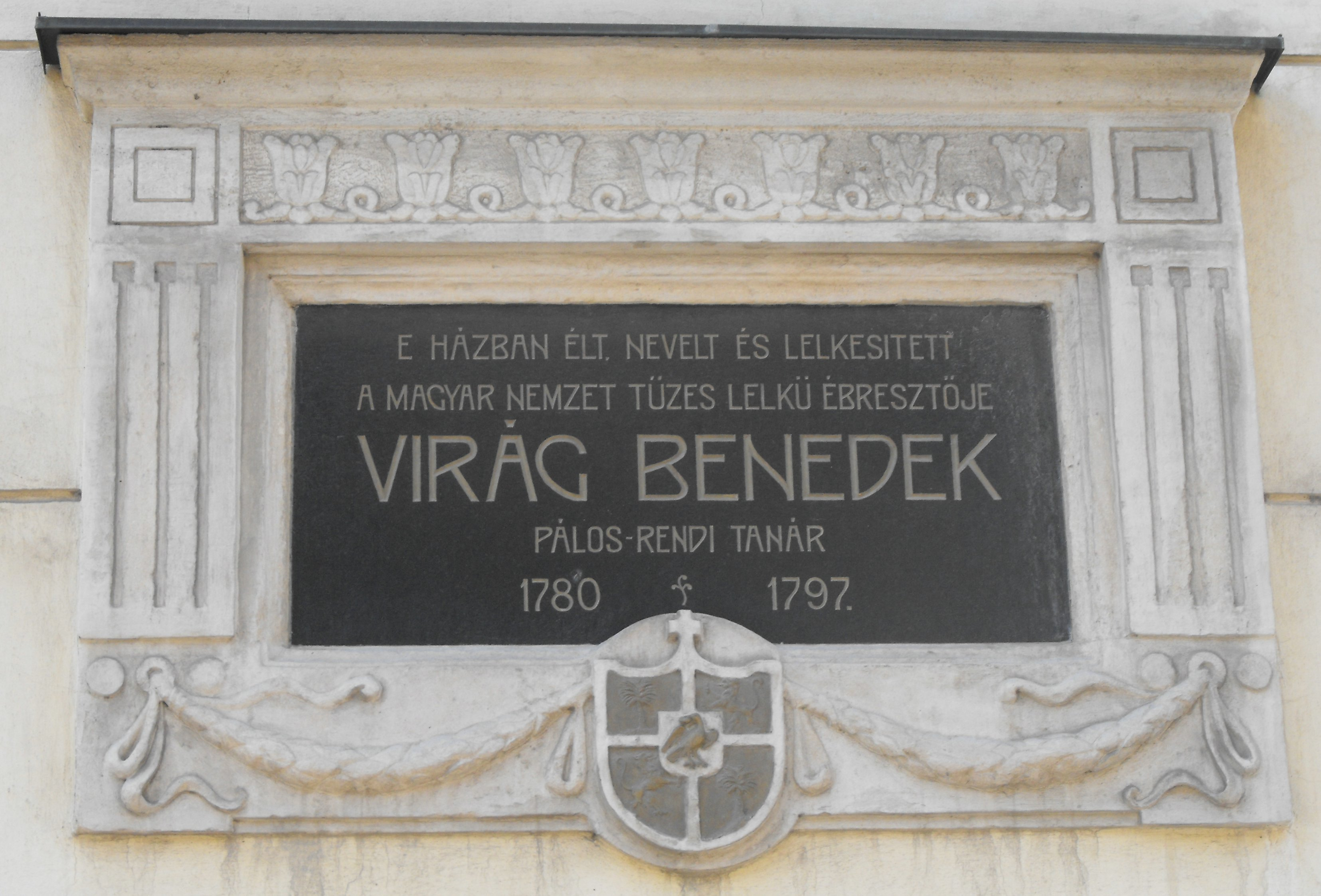 Plaque of Benedek Virág, teacher and poet in Székesfehérvár, Hungary.